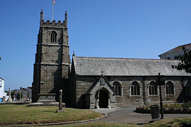 Camborne Parish Church. This church is dedicated to Saints Martin and Meriadoc. The church has had a long an complex history with rebuilding work often reincorporating much of the earlier fabric of the church.